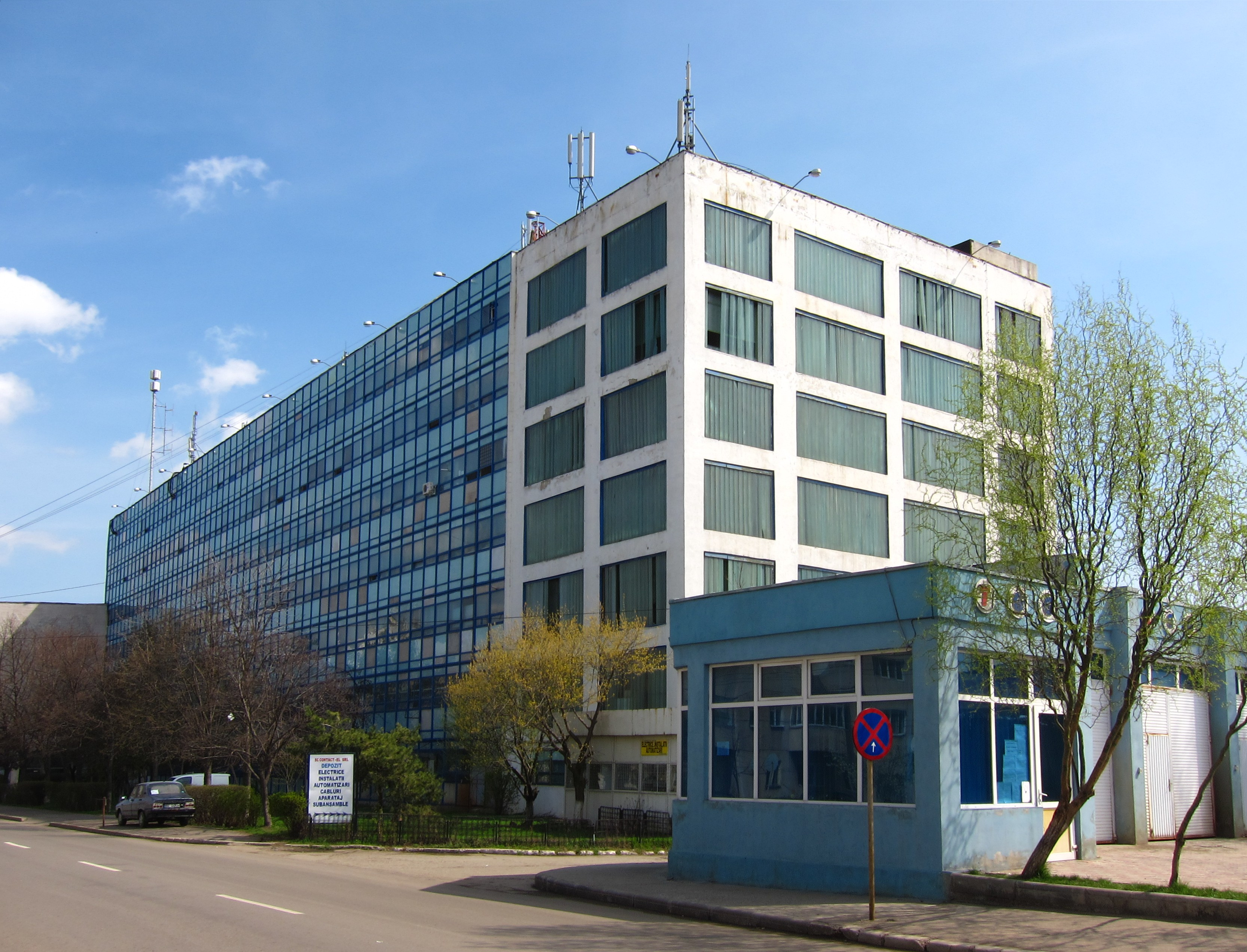 The „Contactoare” factory in Buzău, Romania